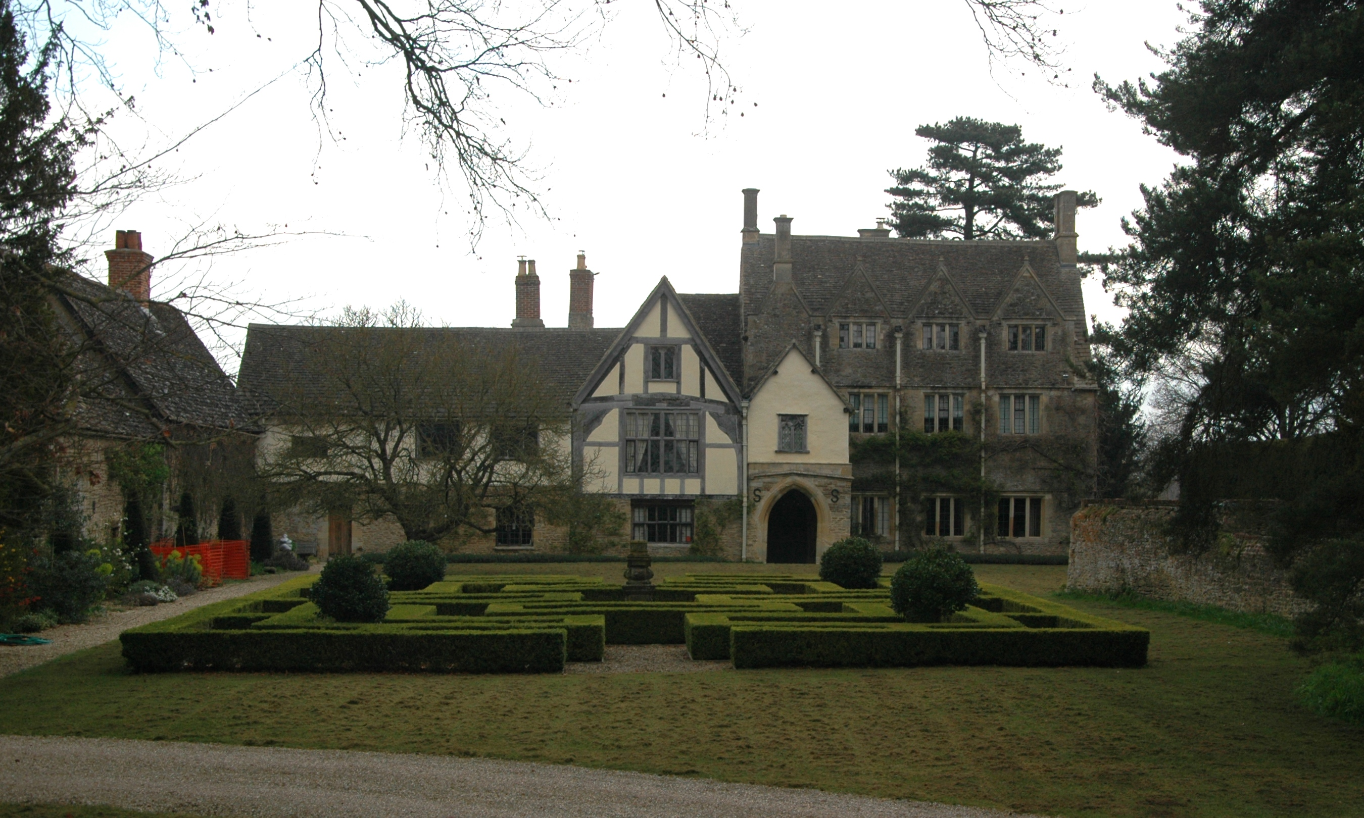 Fyfield Manor House, Oxfordshire (formerly Berkshire)